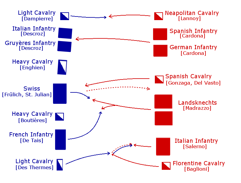 Start of the Battle of Ceresole; French troops in blue, Imperial troops in red.